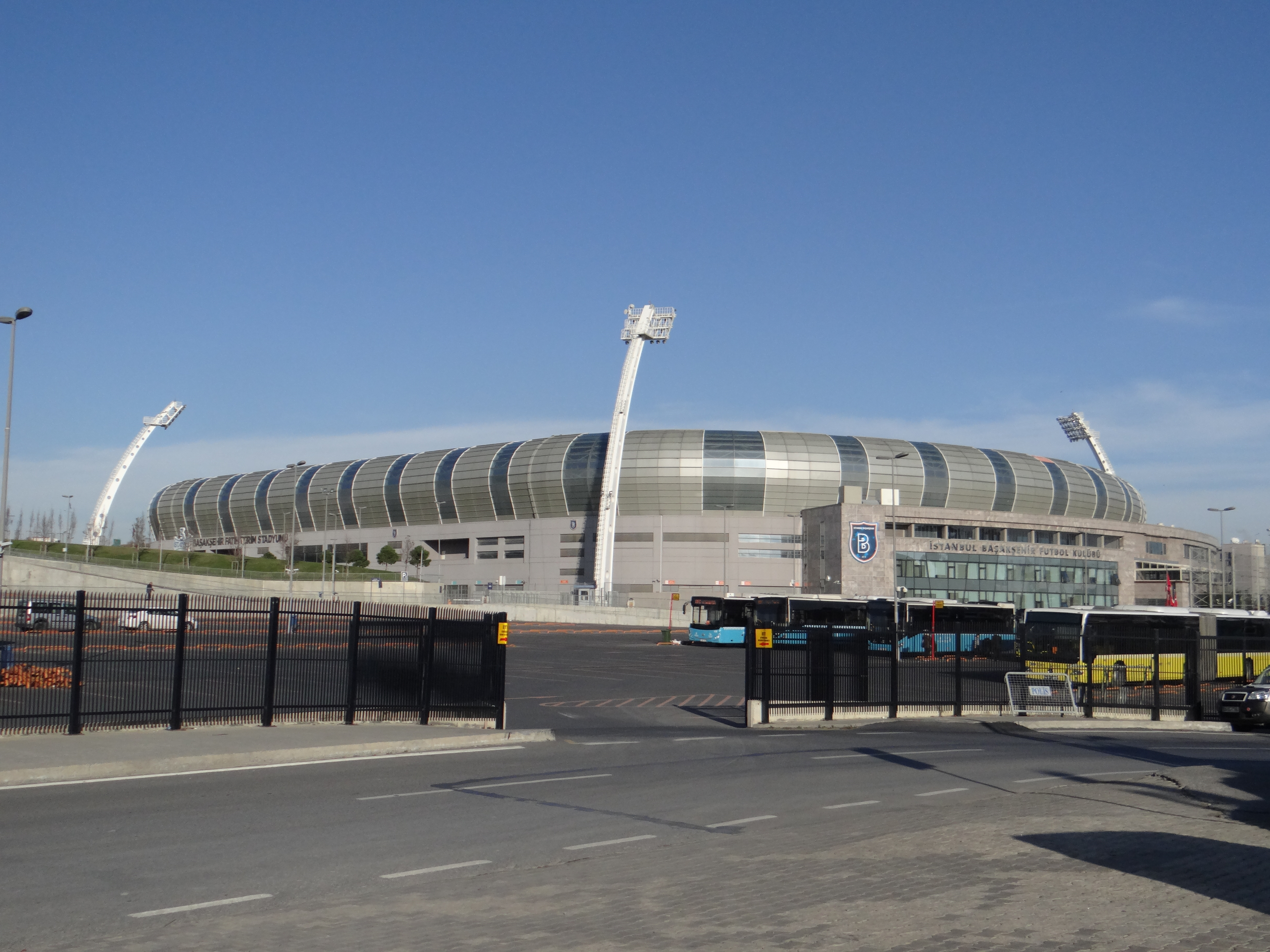 Başakşehir Fatih Terim Stadyumu 20171213